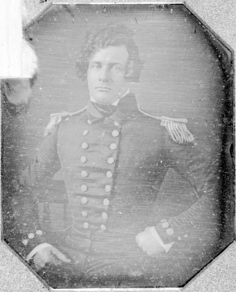 Lieutenat Henry Eld, Cedar Hill, New Haven, CT